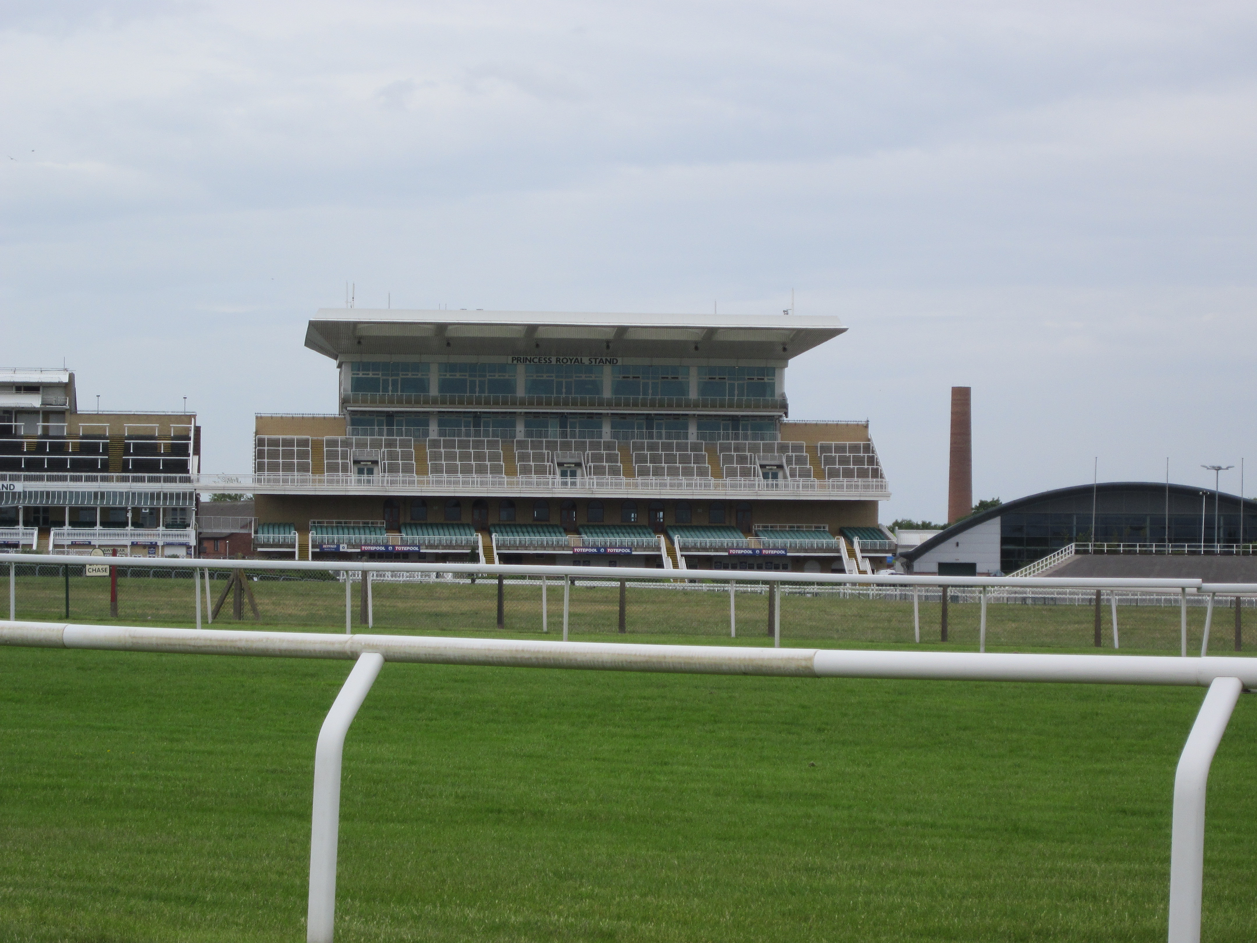 View of Aintree Racecourse from The Melling Road, Merseyside, England.